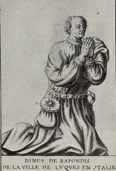 statue of Dino Rapondi in la Sainte Chapelle de Dijon (1350-1416) a banker from Lucca establisahed in France